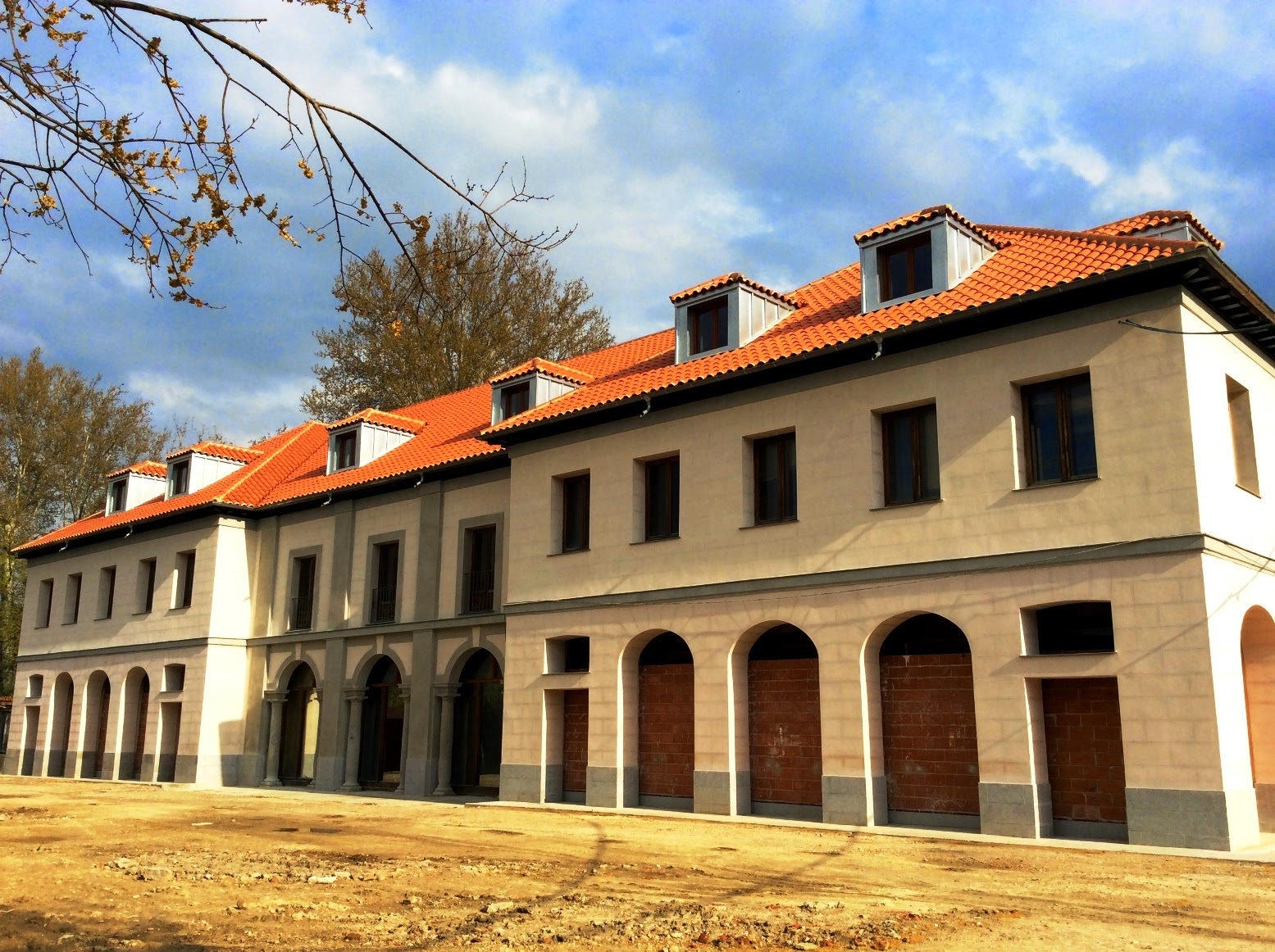 Rear facade of Vargas Palace, in Casa de Campo (Madrid, Spain)